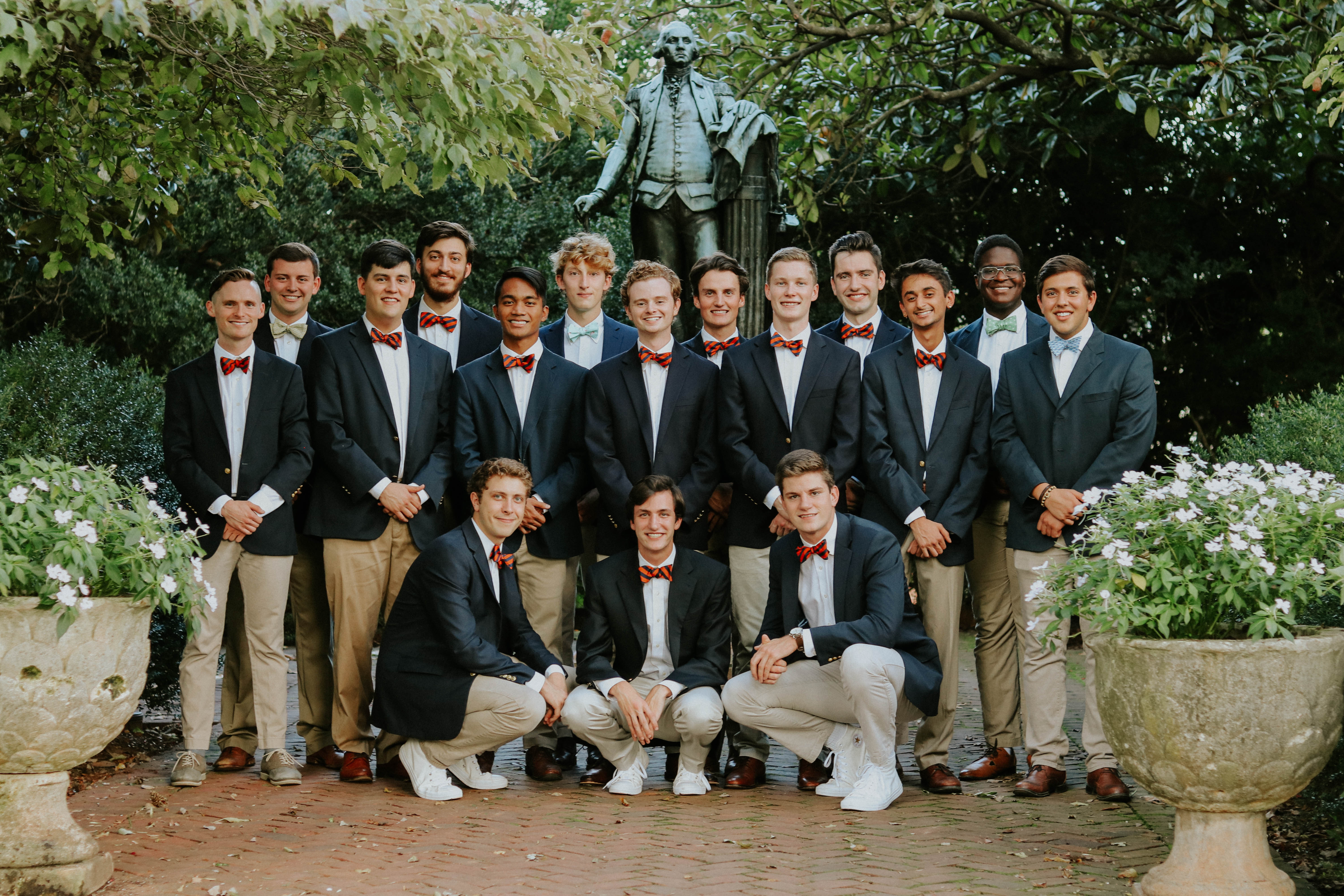 2019 Member Picture of the Virginia Gentlemen, Established 1953 at the University of Virginia.